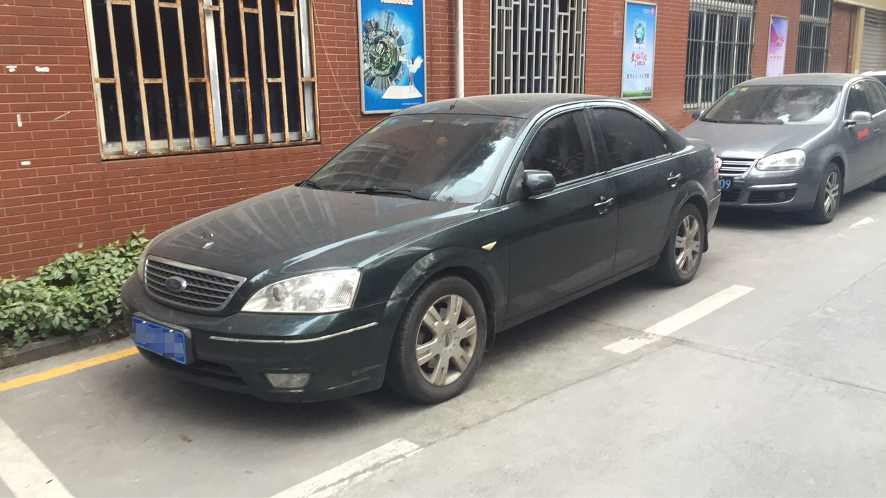 Changan Ford Mondeo(Facelifted)